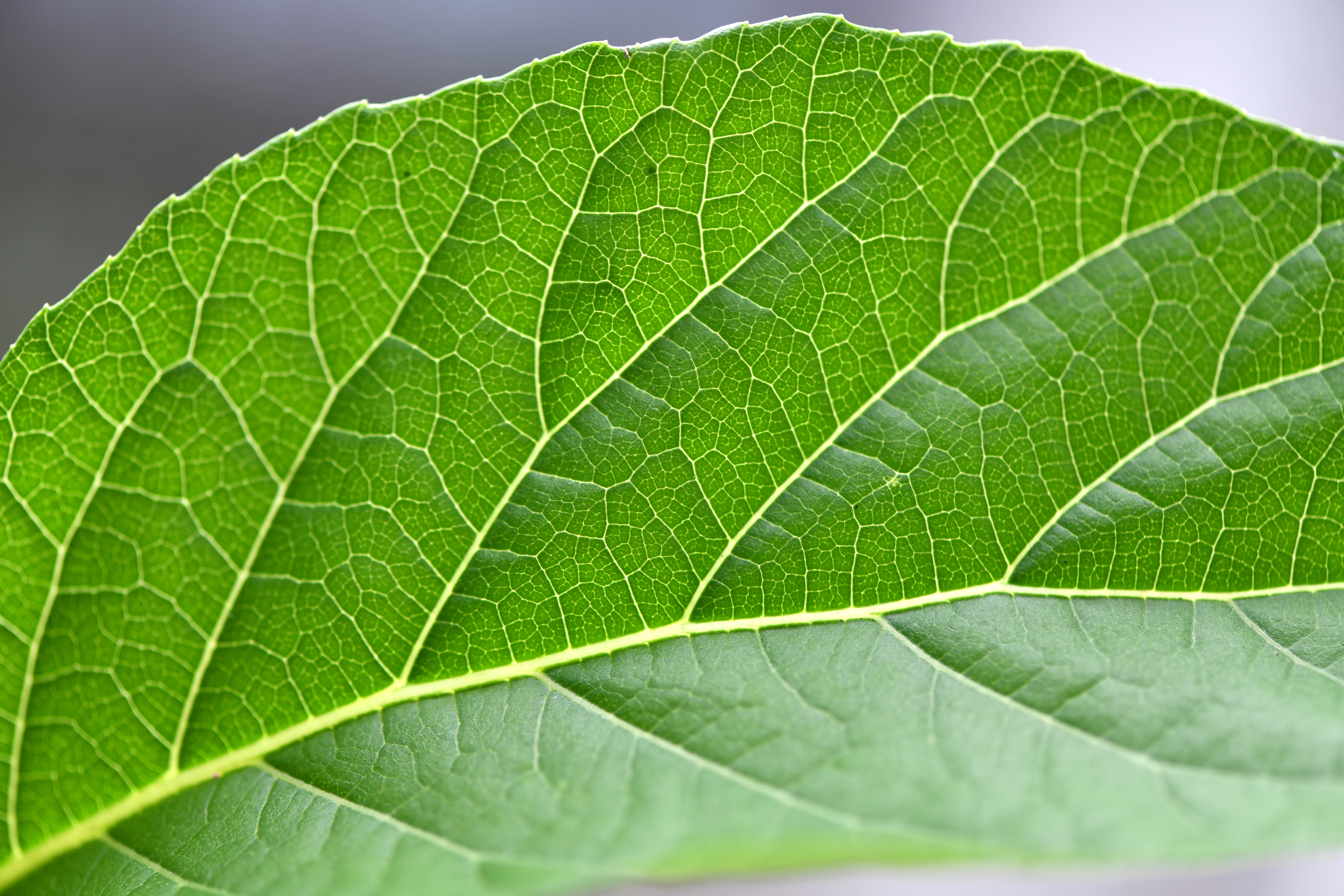 Bitterleaf หนานเฉาเหว่ย From Thailand. Herbal for Life.